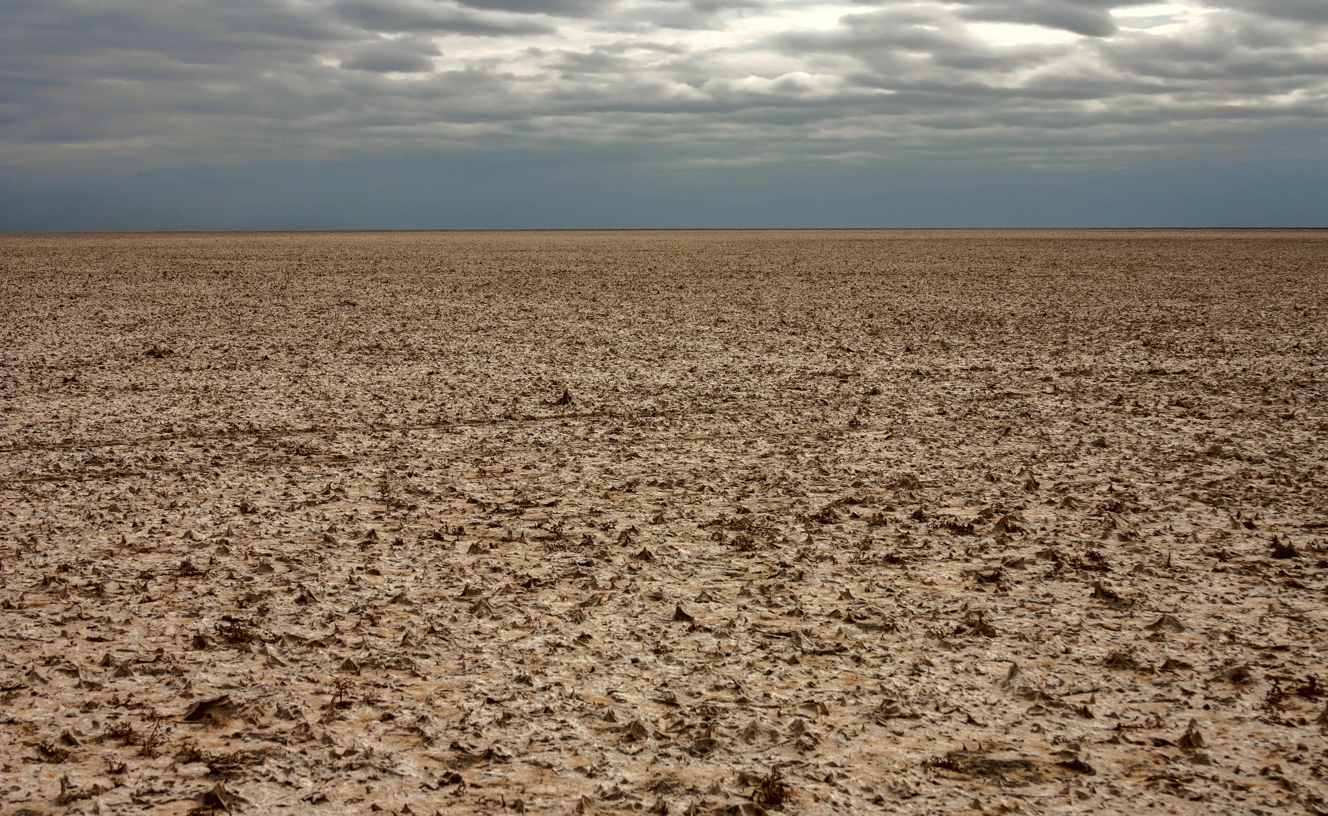 Dried Lake Khanskoye. Yeisk District, Krasnodar Krai, Russia